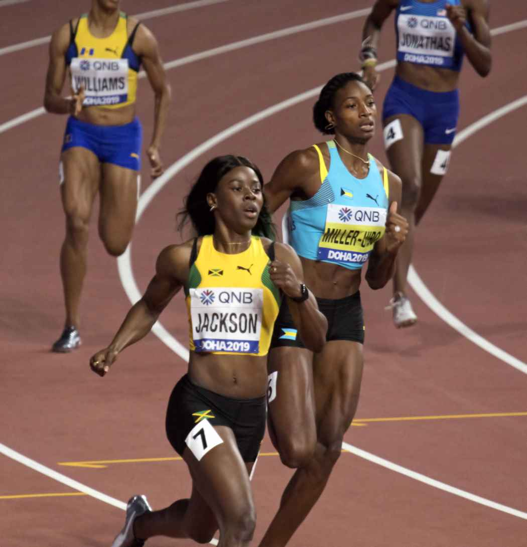 DOH50168 400m women semifinal miller